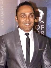 Rahul Bose at GQ Men of the Year Awards 2013